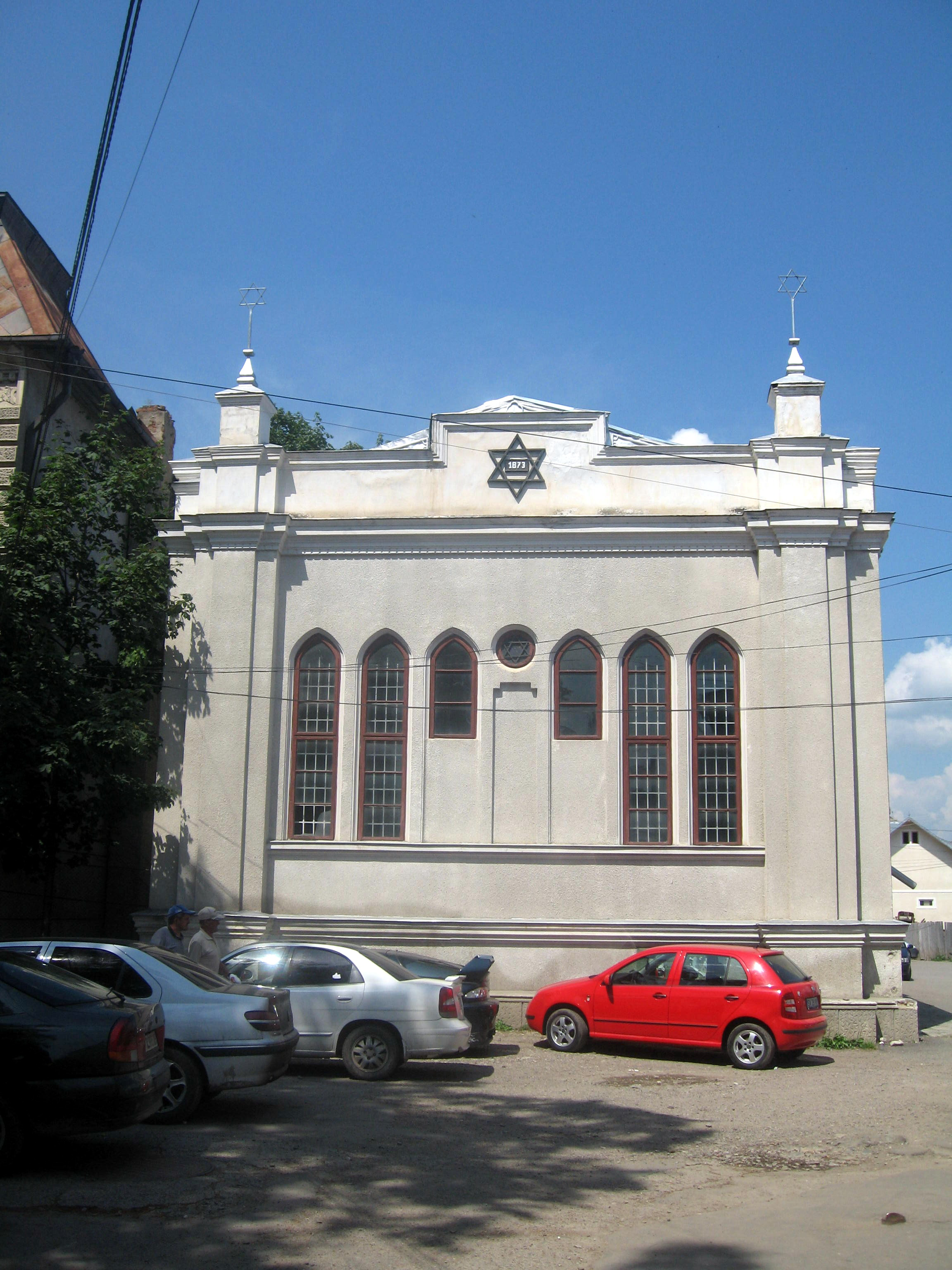 The Jewish Temple in Câmpulung Moldovenesc, Romania